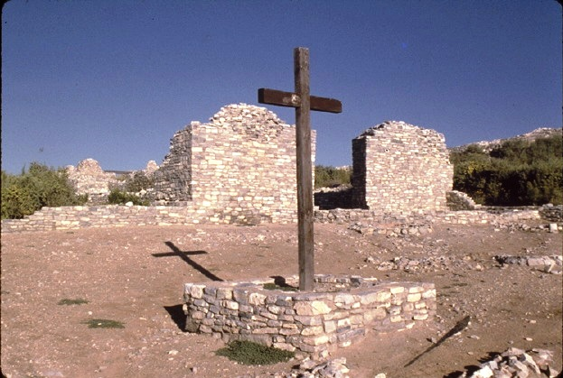 Mission ruins in the Salinas Pueblo Missions National Monument — in Socorro County, central New Mexico.